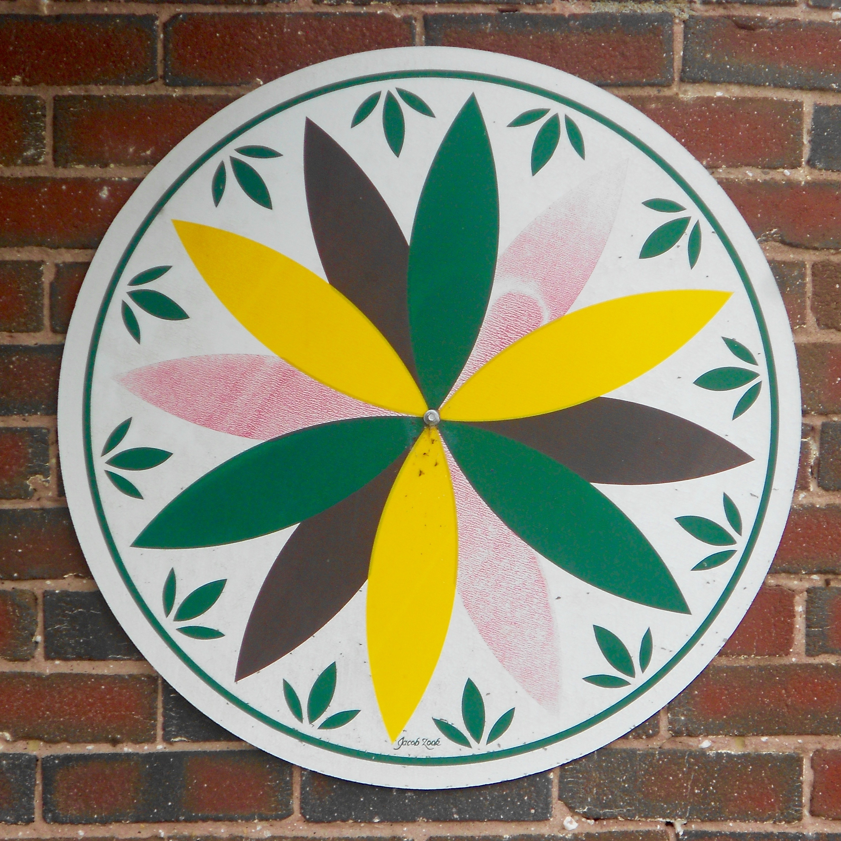 Hex sign in the form of a 12 pointed compass rose, signed "Zook" c. 1945, published without a copyright symbol so should be out of copyright (also it is a basic geometric shape - not copyrightable)